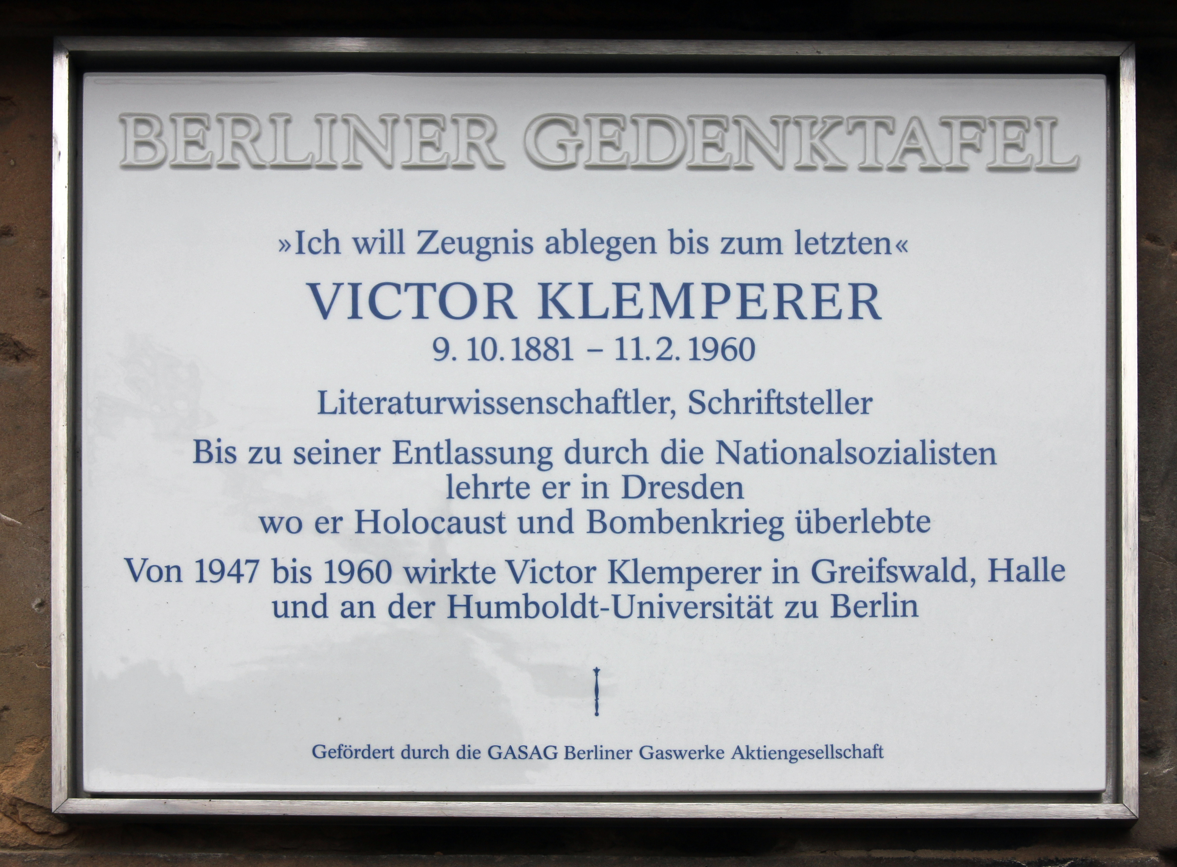 Berlin memorial plaque, Victor Klemperer, Dorotheenstraße 1, Berlin-Mitte, Germany